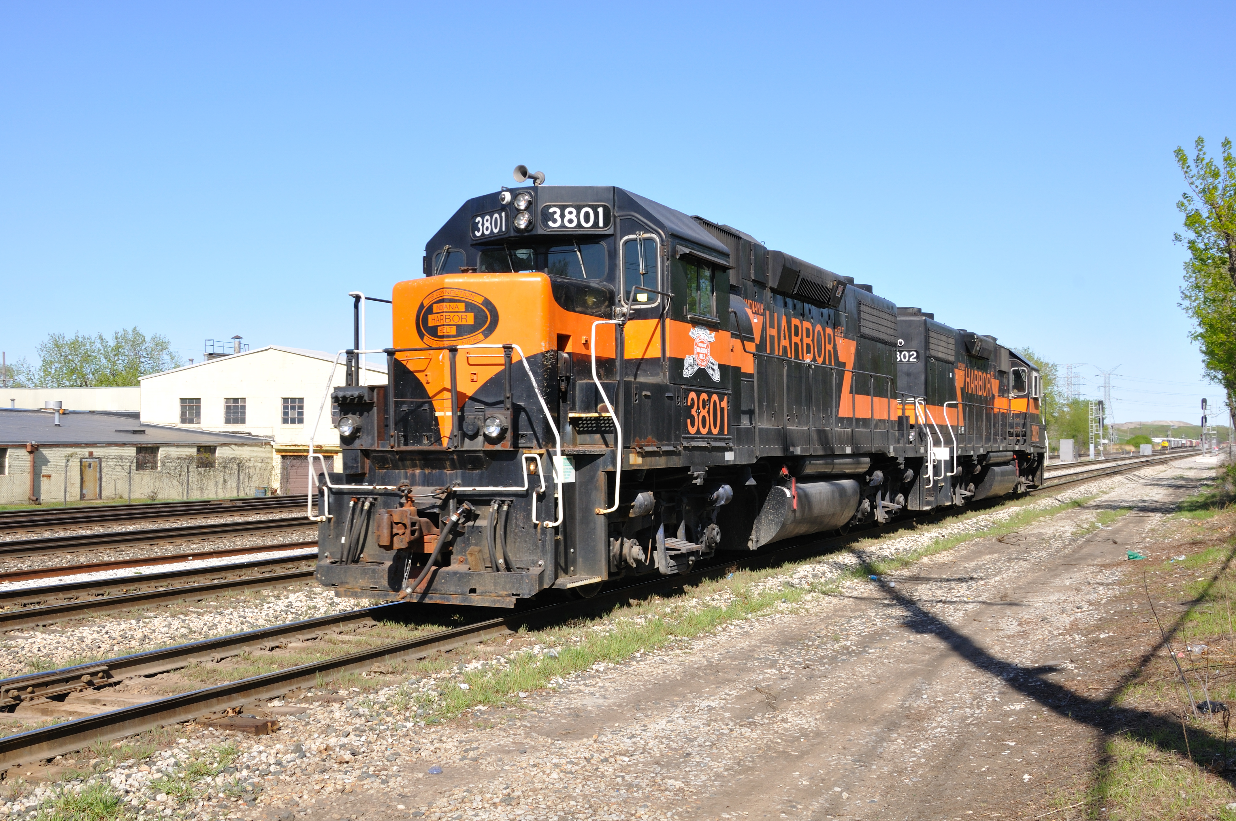 The two EMD GP38-2 that Indiana Harbor Belt operates.